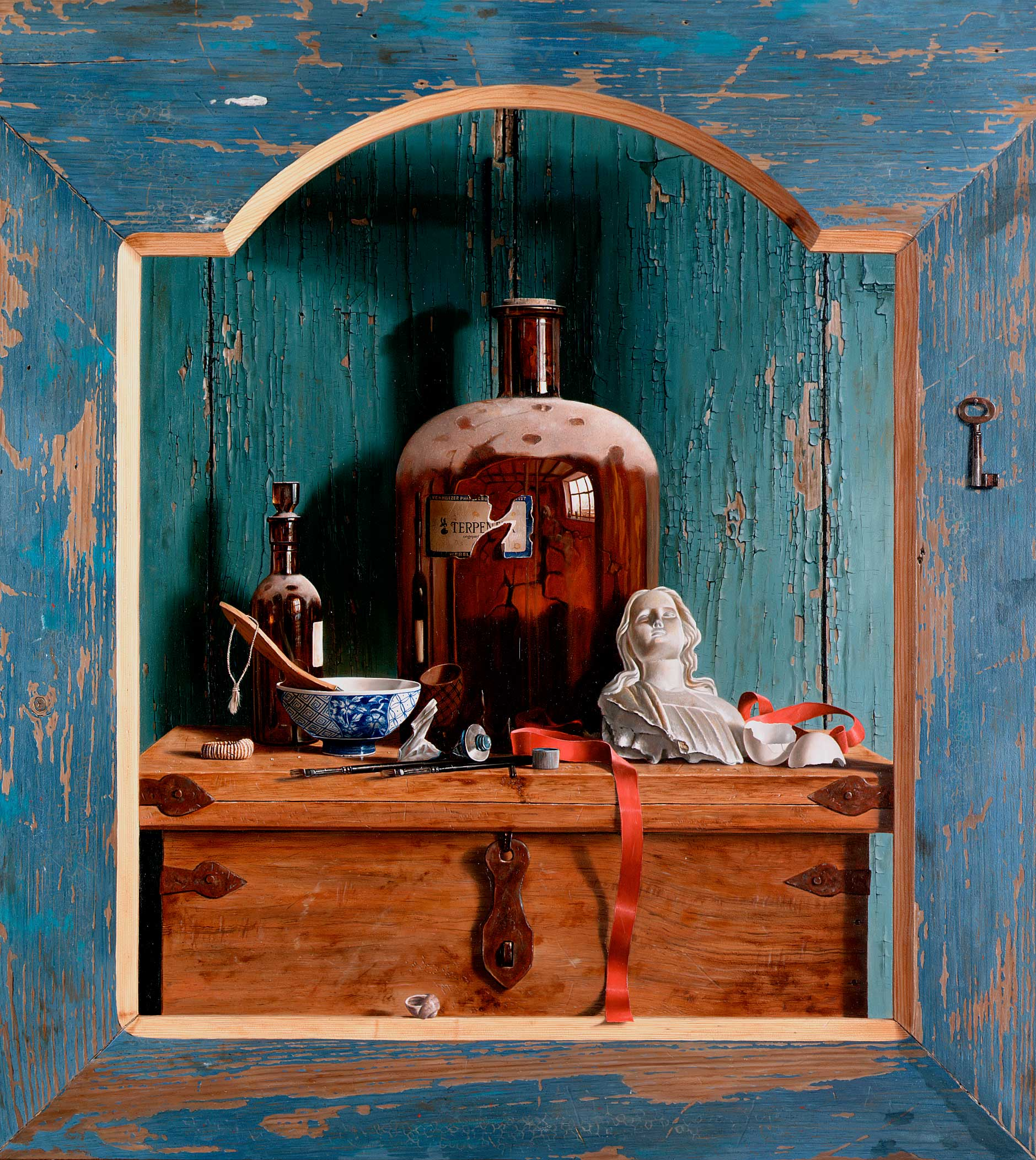 Waiting Rob Møhlmann